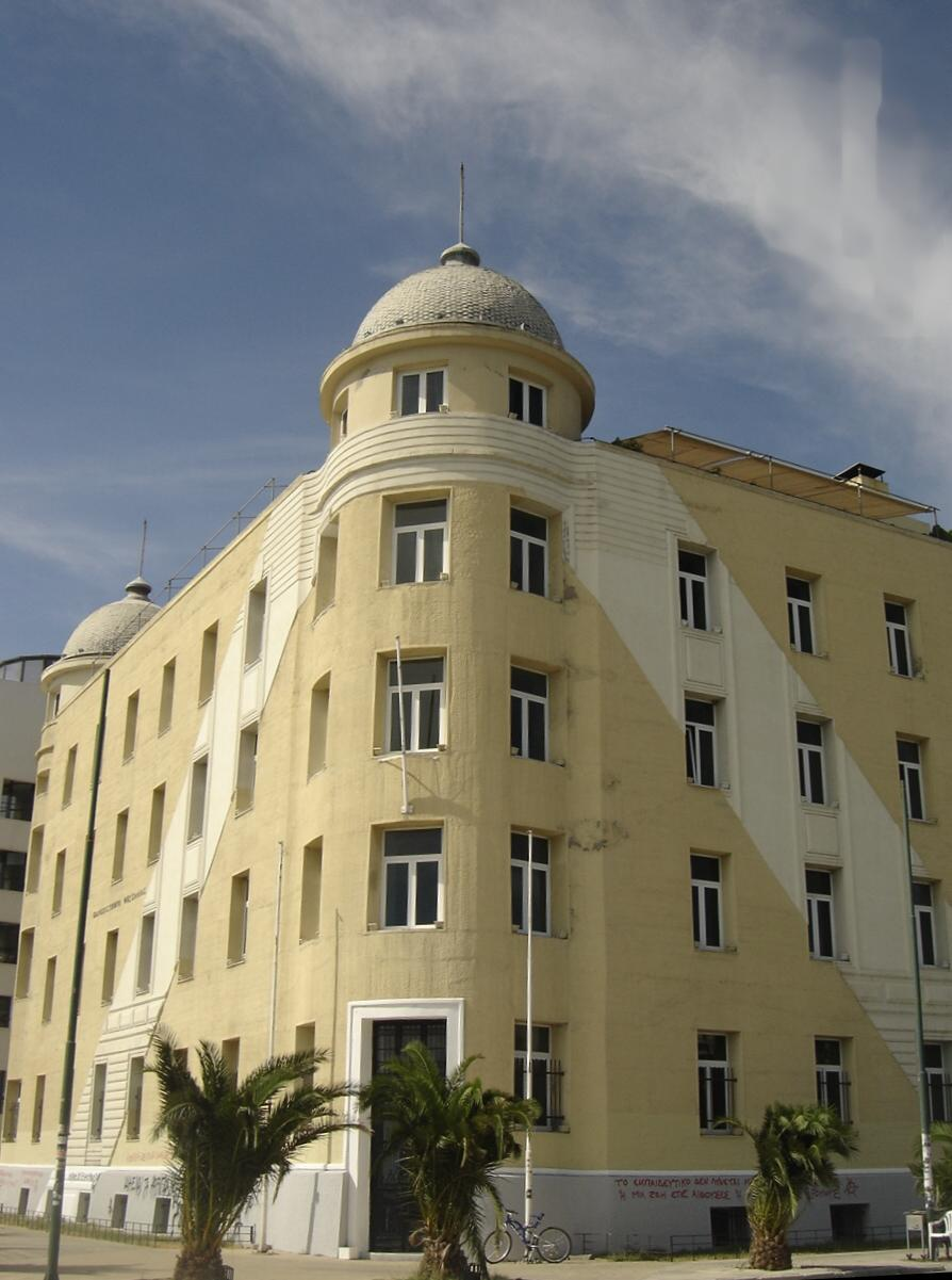 The University of Thessalia in Volos - Papastratos Building